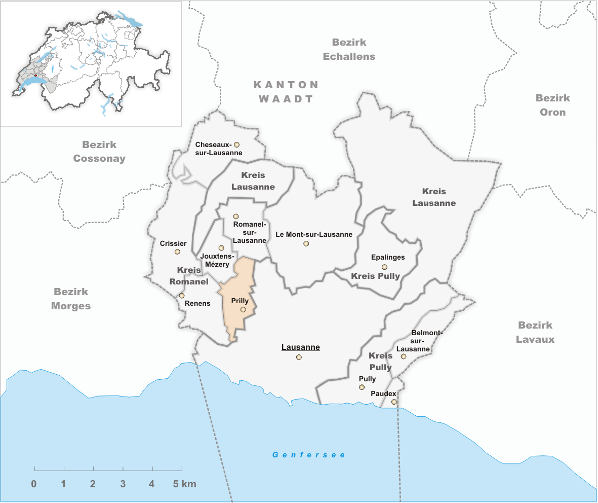 Municipality Prilly